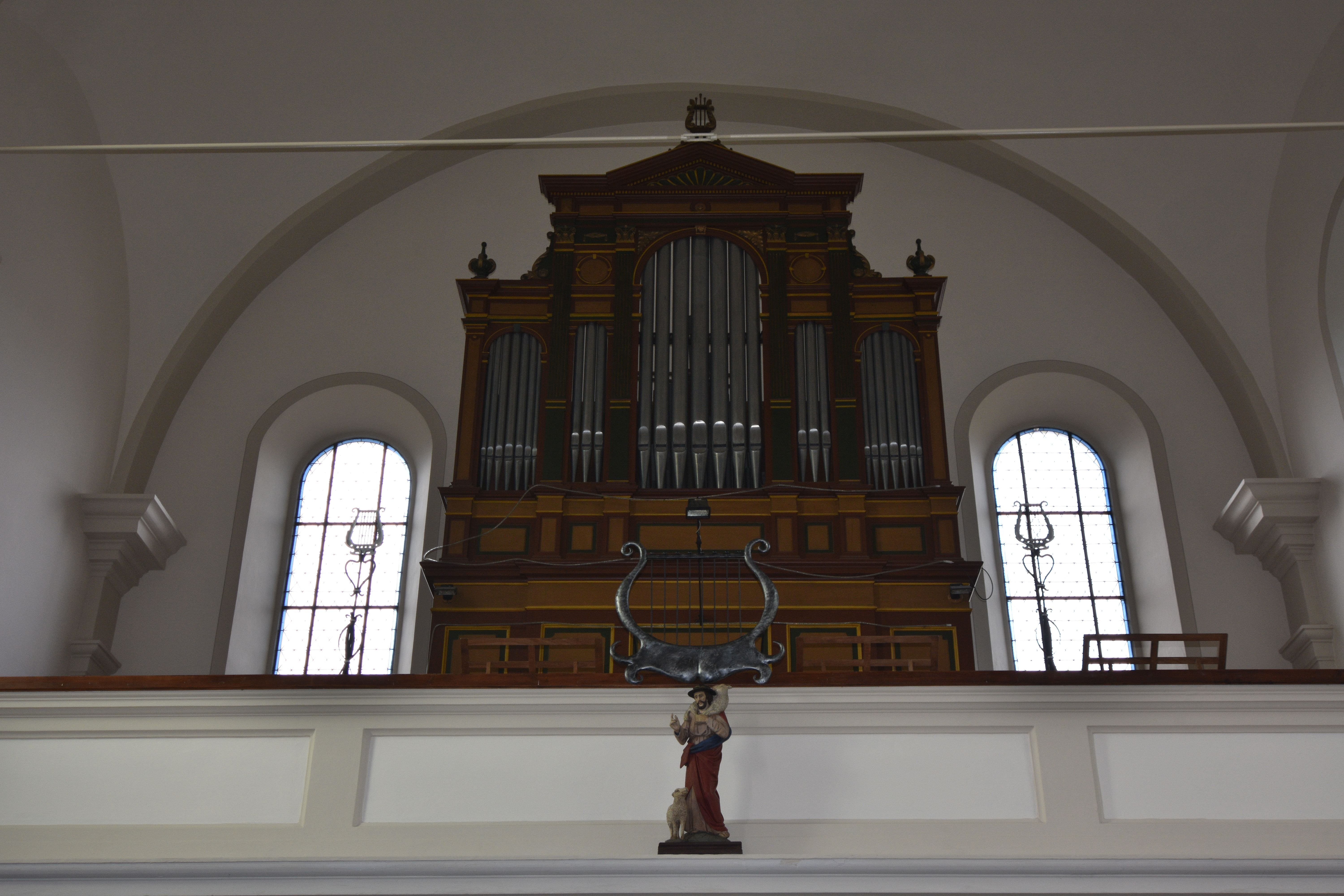 Pfarrkirche hl. Heinrich, Unterlamm - Interior